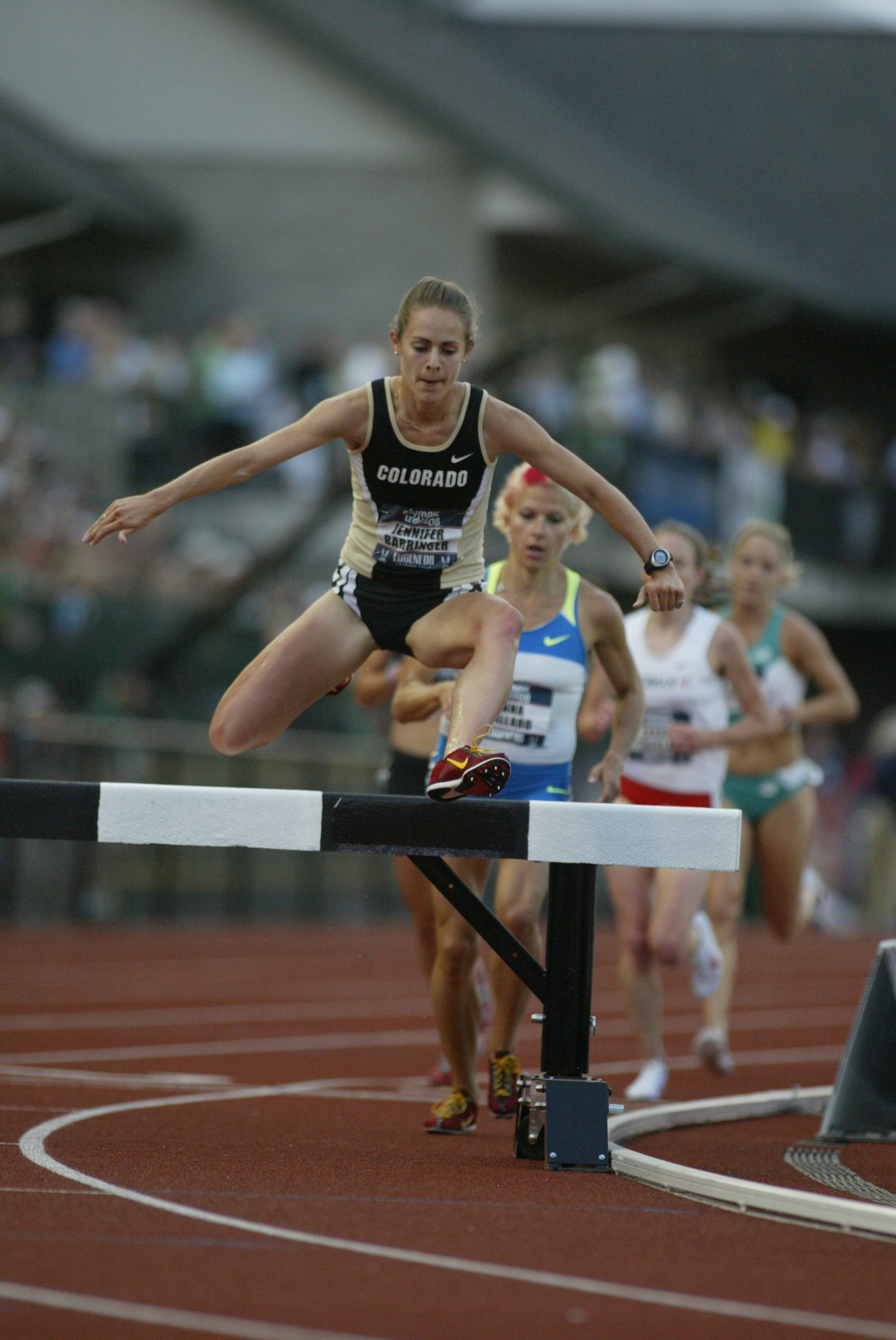 Jennifer Barringer in the 2008 U.S. Olympic Trials